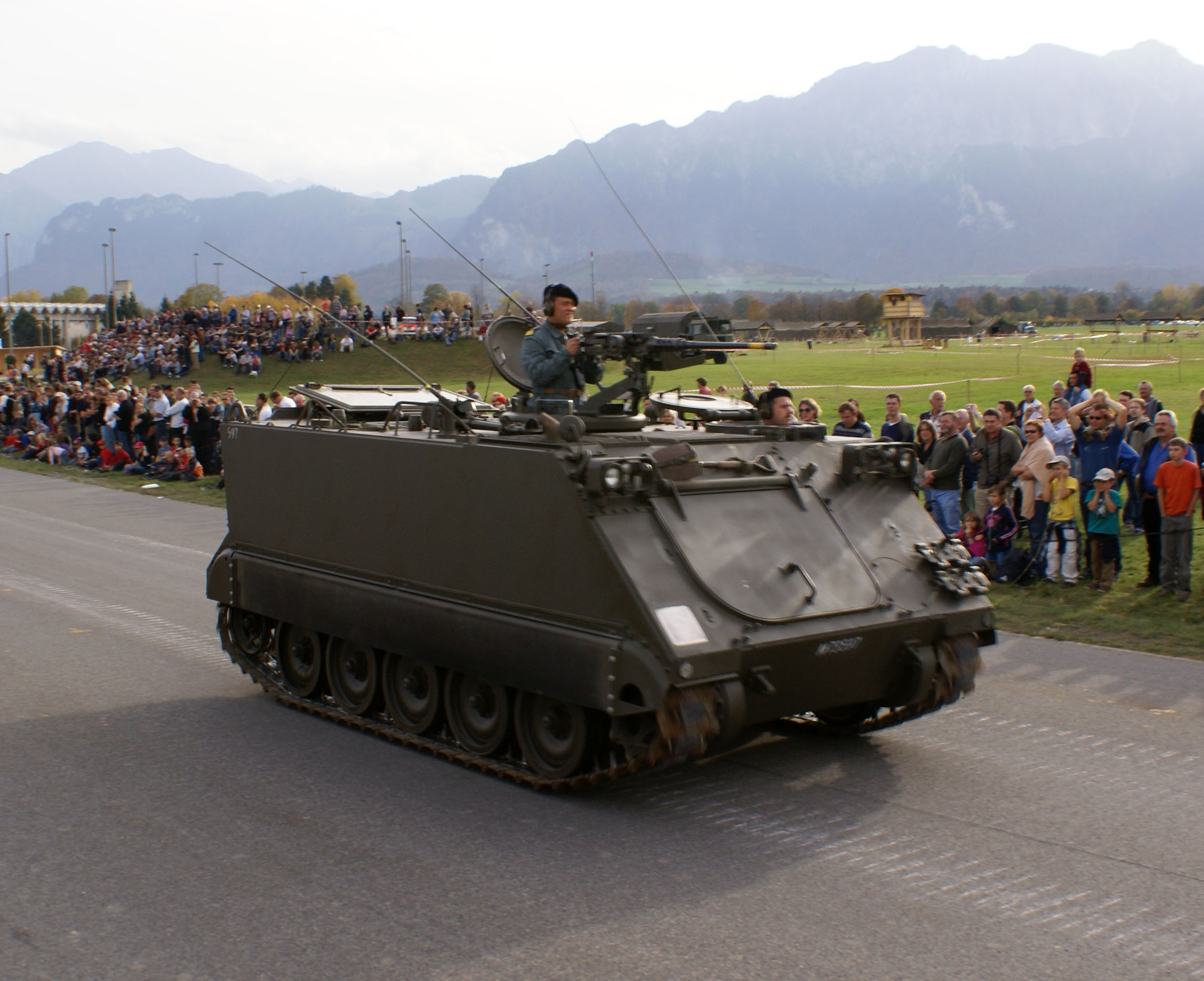 Swiss Army. M113 Armored Personnel Carrier. Participating in the "Steel Parade" of the 2006 Army Days, Thun.